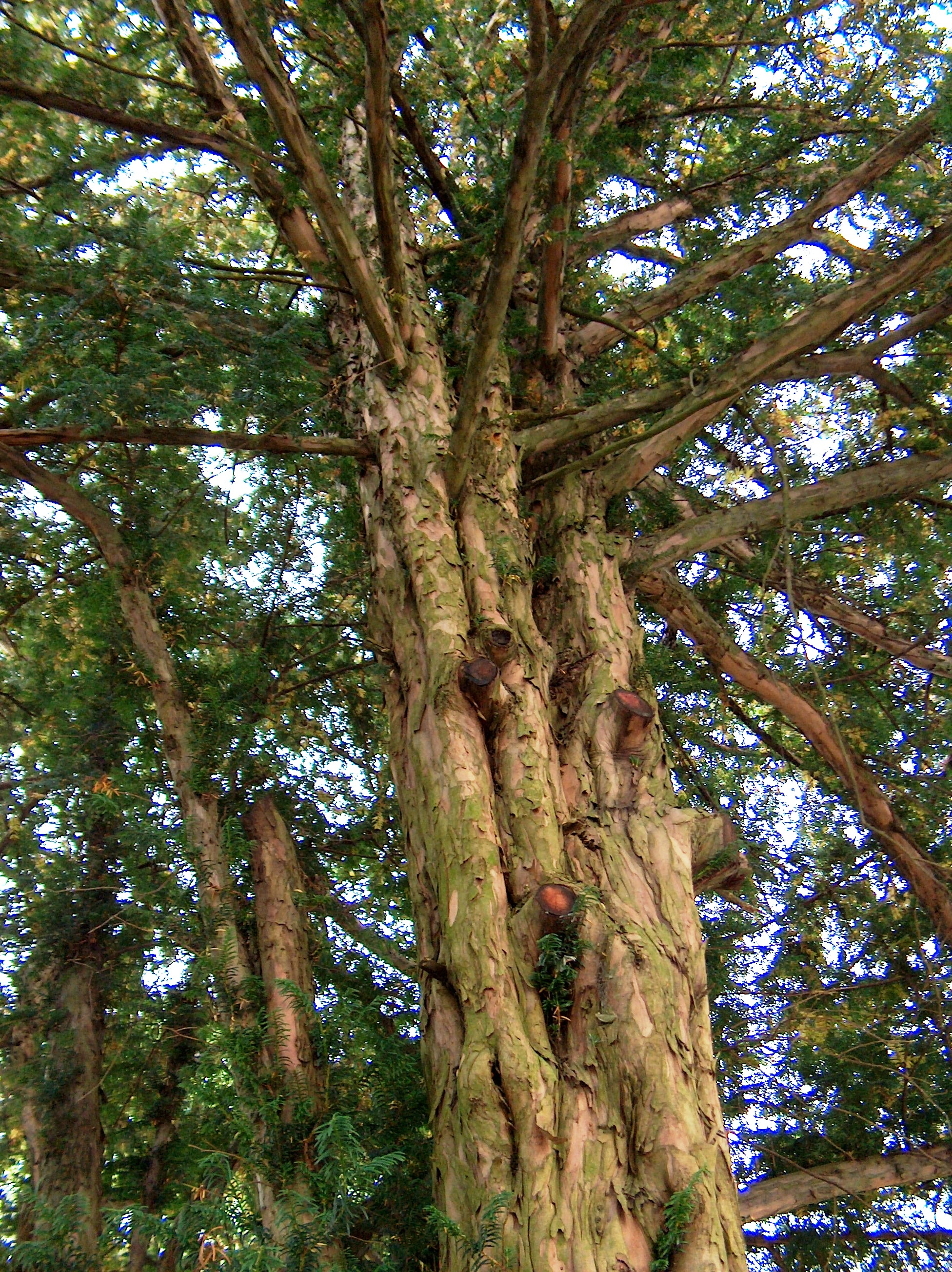 Taxus baccata - Tree from Botanical Garden Bergen Museum in Norway